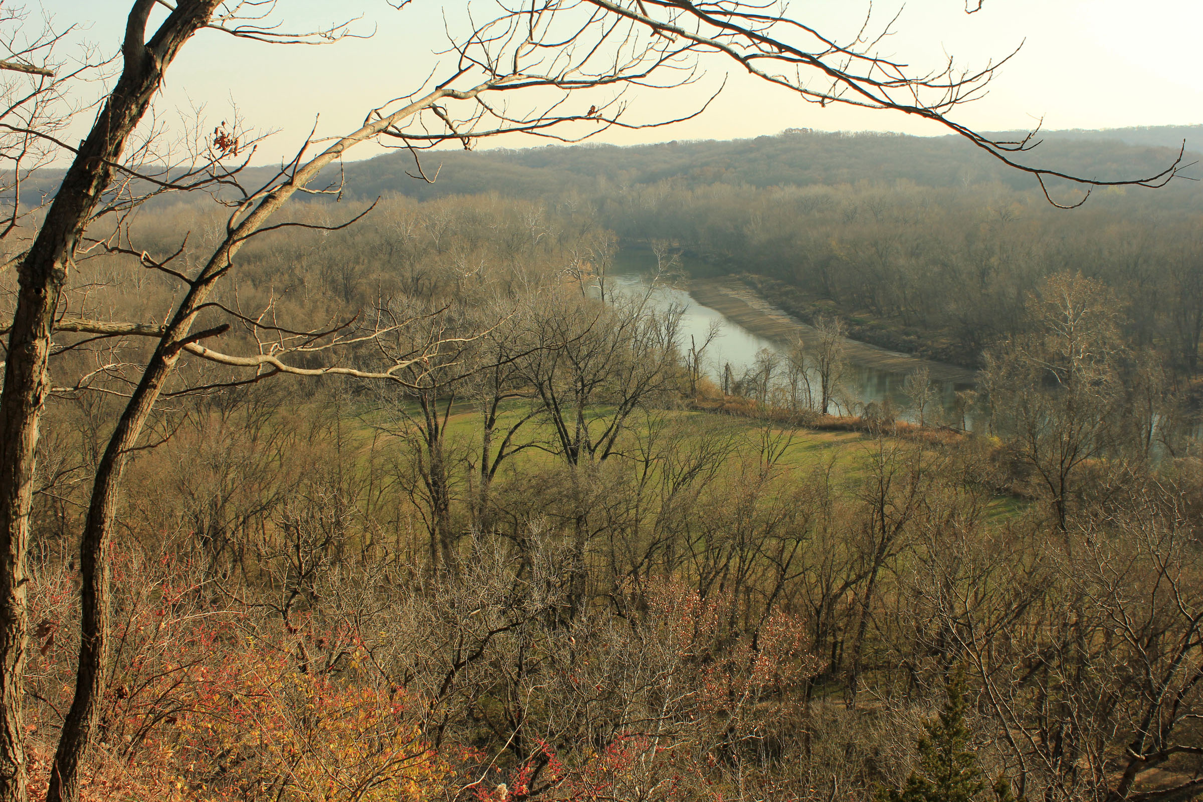 Scenic view of the river, meadow, and forest from Castlewood state park